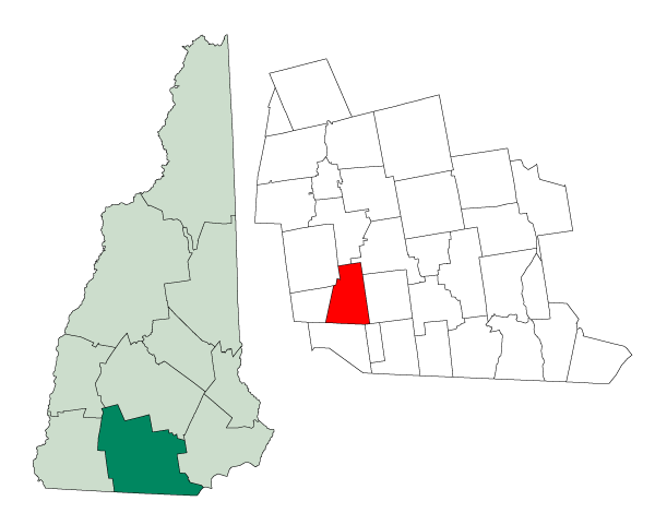 Map of a municipality in Hillsborough County, New Hampshire